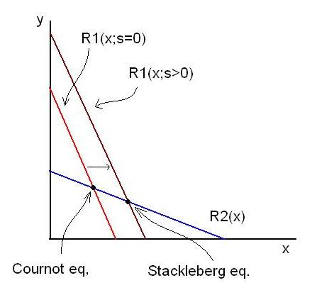 Graph illustrating the Brander Spencer model